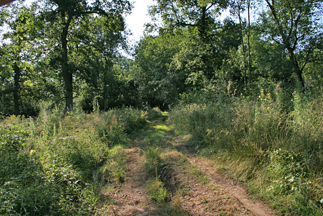 Skeffington Wood, Leicestershire. Managed mixed deciduous woodland, mainly oak with a diverse undergrowth